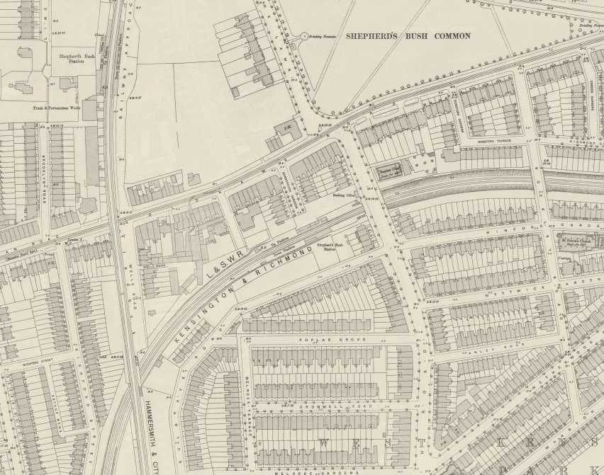 Location of the London and South Western Railway's Shepherd's Bush railway station, Shepherd's Bush on an Ordnance Survey Map. The station was opened in 1869 and closed in 1916 and the station site and the tracks have been built over.